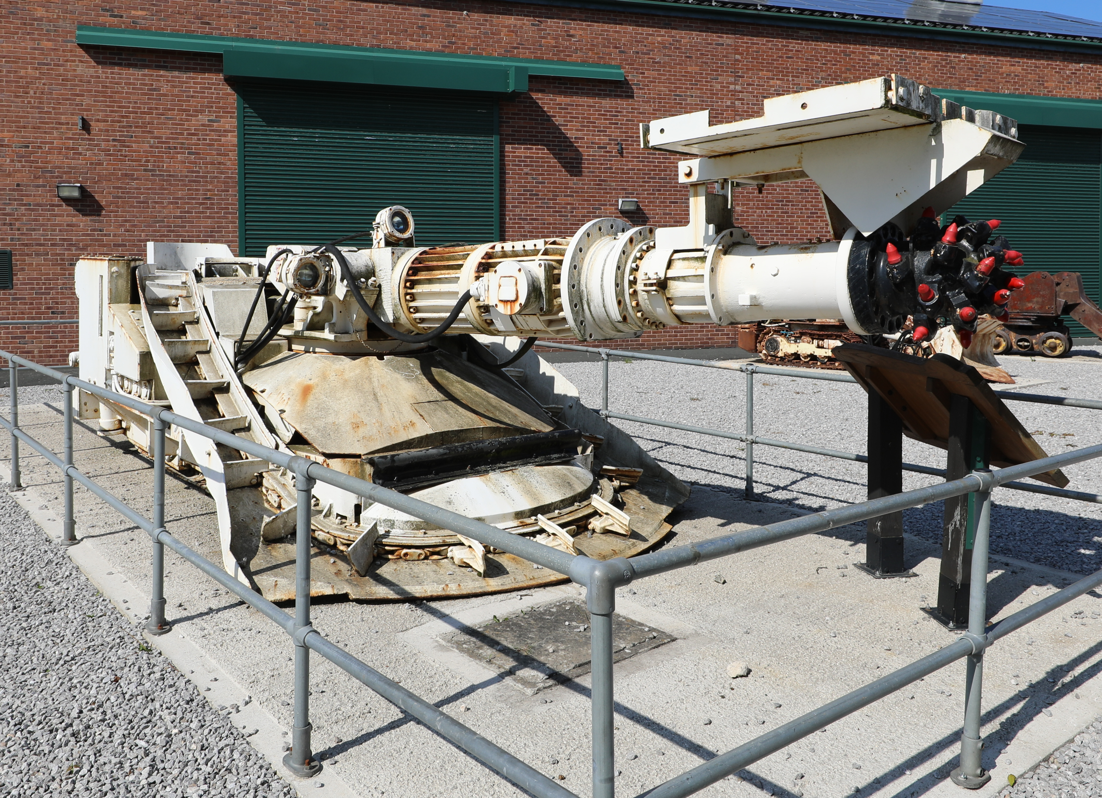 Photo of a dosco mk2a roadheader